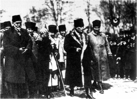 Atatürk in Konya, March 22, 1923